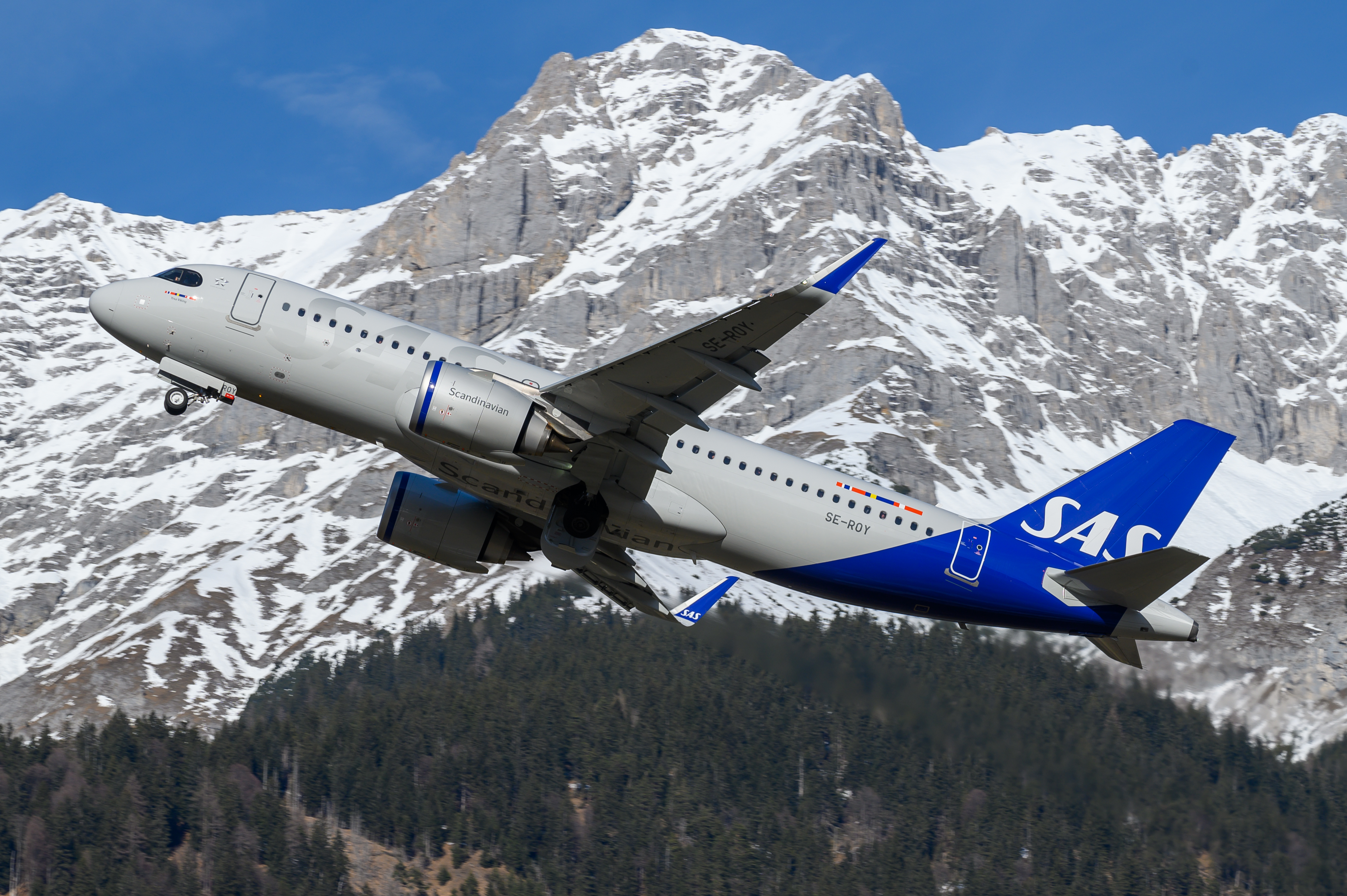 "Yrsa Viking" Departing INN